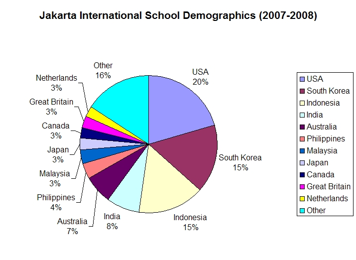 A breakdown of students at Jakarta International School by nationality (2007-2008)